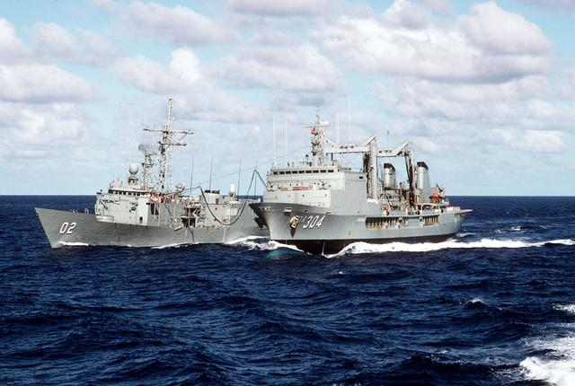 Sourced from: Details: ID: DNST9112040 Service Depicted: Other Service The Australian guided missile frigate HMAS CANBERRA (FFG-02) refuels from the Australian underway replenishment tanker HMAS SUCCESS (AOR-304) as the vessels takes part in exercise RimPac '88 off the coast of Hawaii. Camera Operator: PH1 TERRY COSGROVE Date Shot: 1 Jul 1988